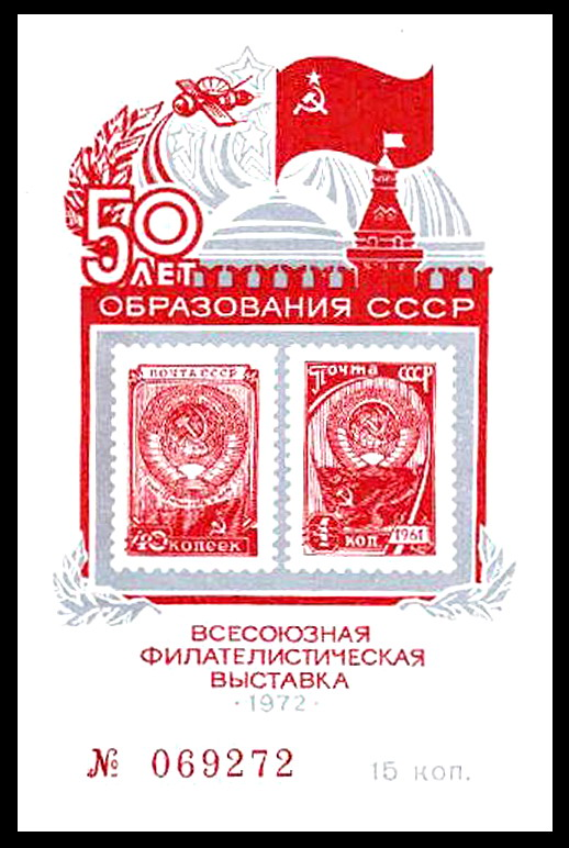 Non-postage souvenir sheet of the Soviet Union, USSR 50th Anniversary All-Union Philatelic Exhibition, 1972